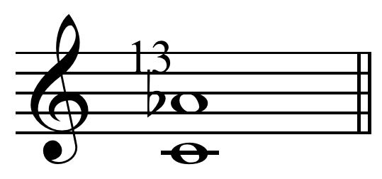 Tridecimal neutral sixth (Thirteenth harmonic) on C = A13♭ (Ben Johnston's notation). 13:8 = 840.53 cents. Limit: 13-limit.